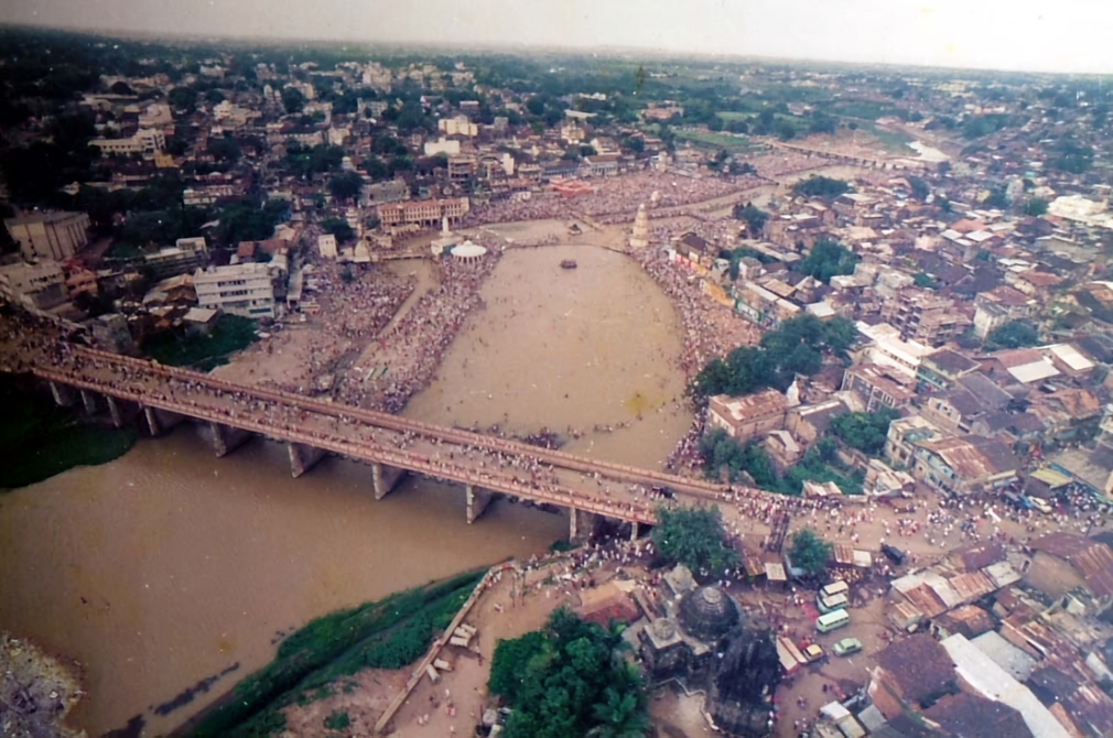 Nashik_Aerial_Shot_during_1989_Kumbh_Mela